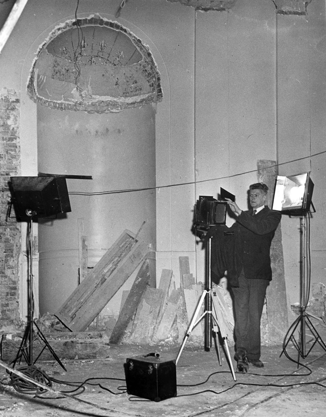 General notes: The official photographs of the renovation of the White House are being taken by Abbie Rowe, photographer, National Park Service, Department of the Interior. Mr. Rowe and the equipment used by him in this work are shown in this photograph.